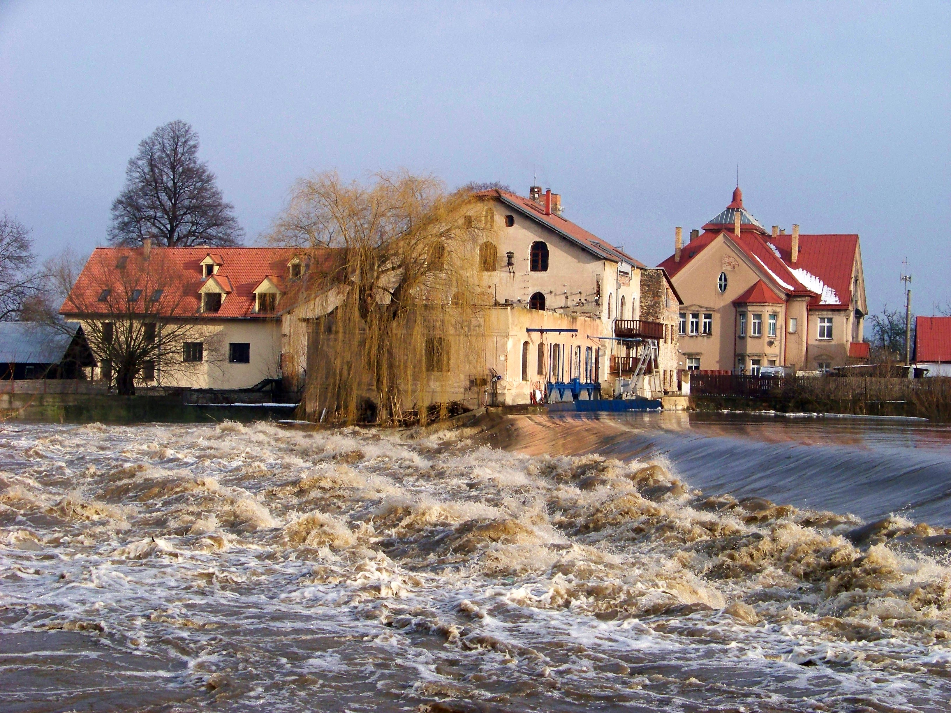 Černošice, Prague-West District, Central Bohemian Region and Prague-Lipence-Dolní Černošice, the Czech Republic. Černošice weir. - Google Maps - Google Earth